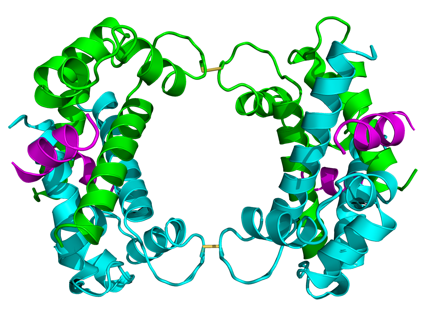 Crystallographic structure of the p11 protein based on the 1BT6 PDB coordinates.